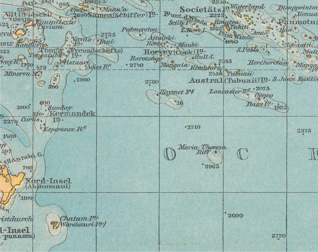 Map of South Pacific with some phantom islands